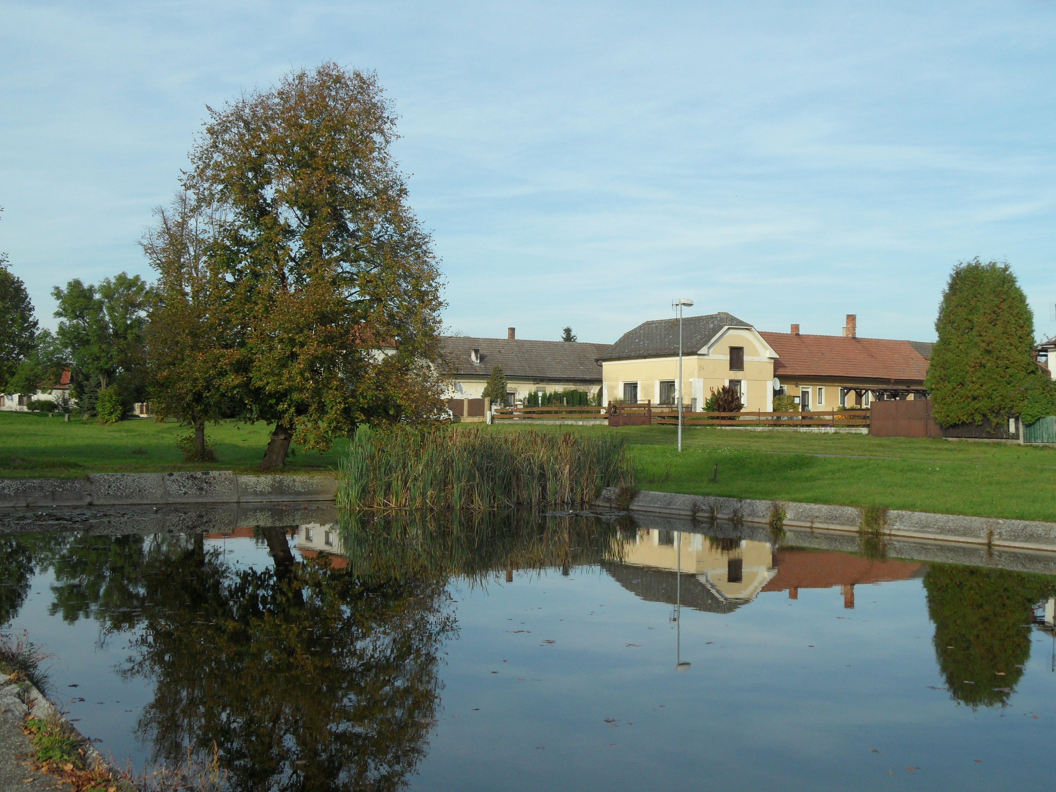 Hlavečník A. Houses near Small Pond, Pardubice, the Czech Republic.